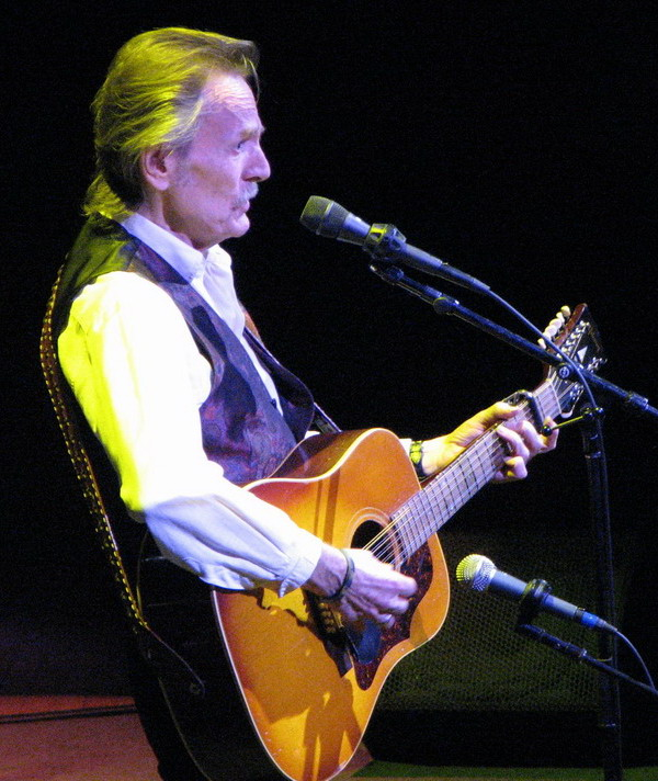 Gordon Lightfoot at Massey Hall, Toronto, Ont. Photo by Kasra Ganjavi